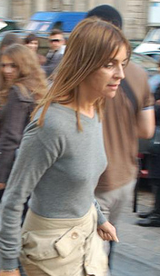 Carine Roitfeld, editor of French Vogue